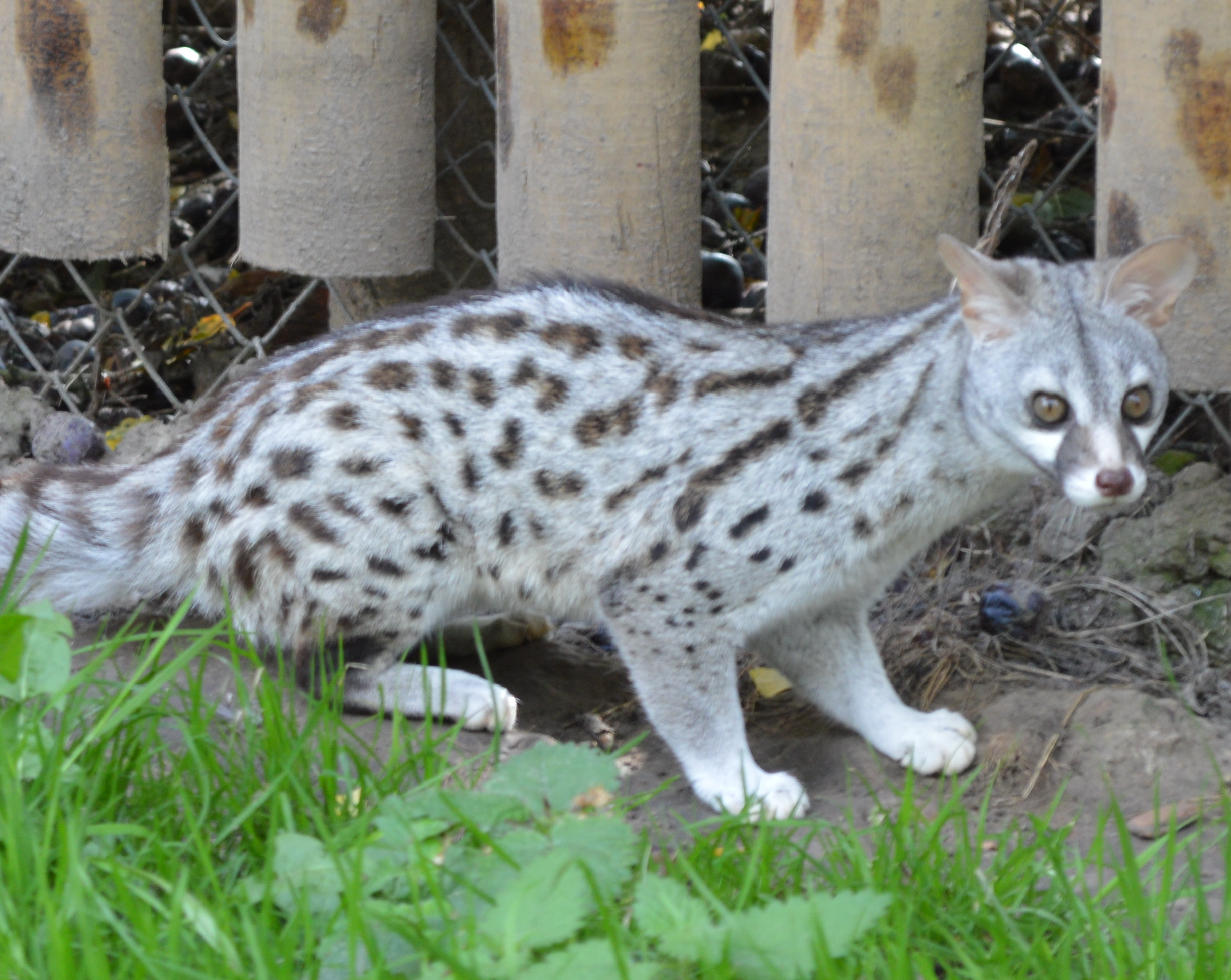 Pardine Genet taken at Wingham Wildlife Park